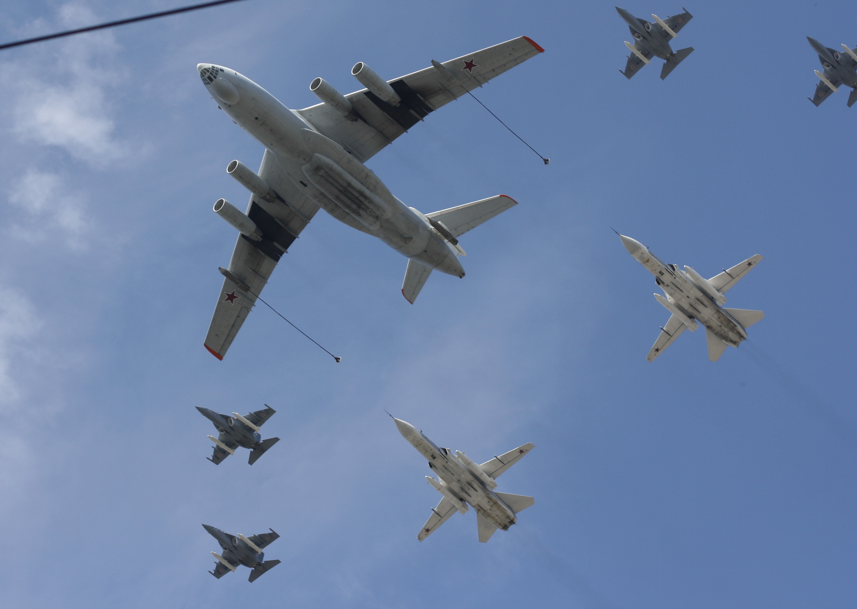 Planes in Russian Parad 2010